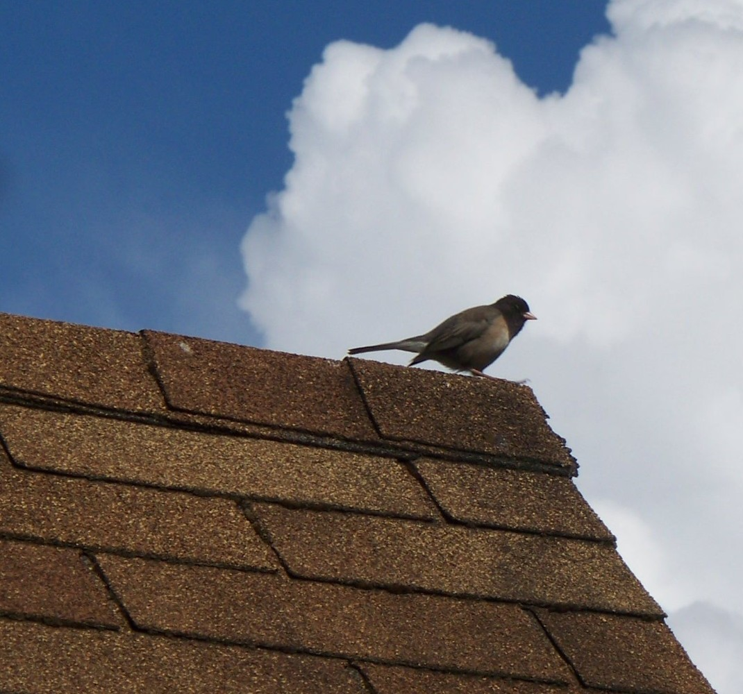 Dark-eyed Junco perched on an asphalt shingle roof, Seattle area, USA